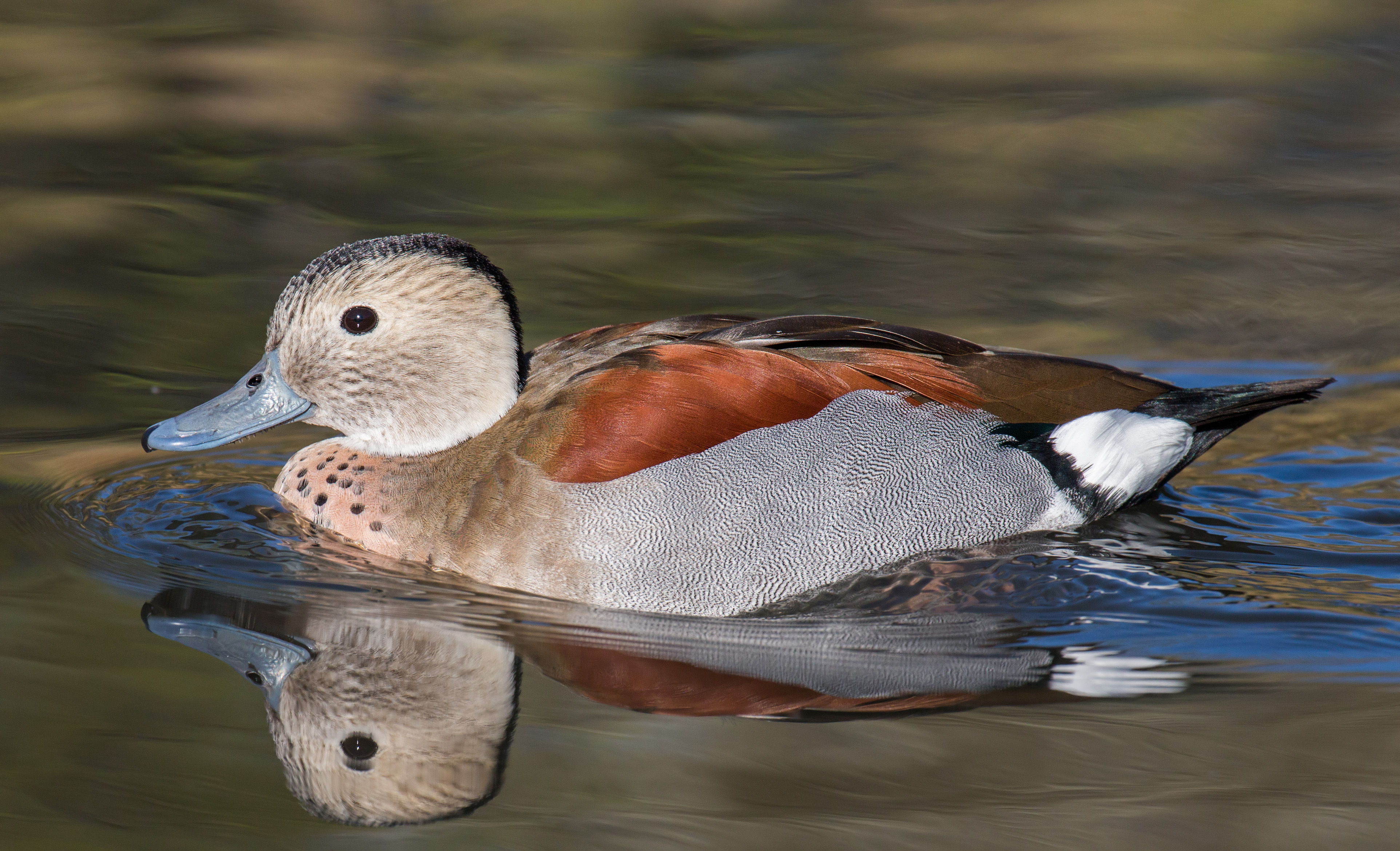 Male Callonetta leucophrys, commonly known as the Ringed Teal, at the London Wetlands Centre in Barnes, London.